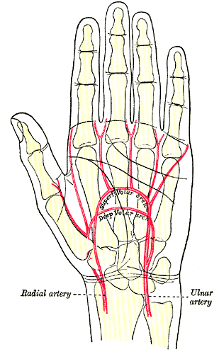 Palm of left hand, showing position of skin creases and bones, and surface markings for the volar arches.